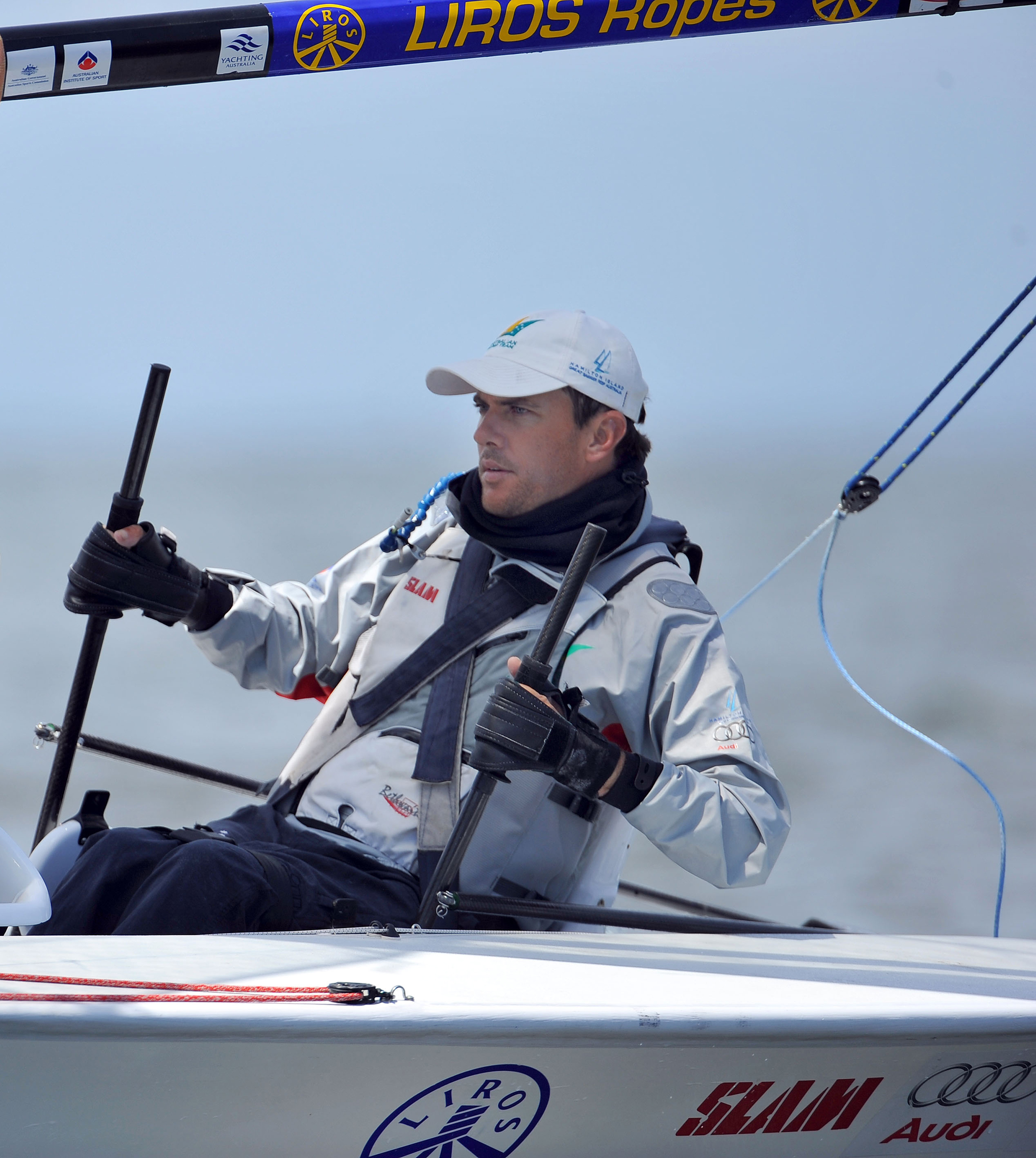 Australian sailor Daniel Fitzgibbon, Australian Paralympic (shadow) Team athlete. Action photo from 2011